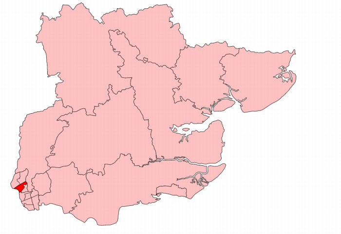 A map of Leyton West constituency within Essex, as it existed from 1918 to 1950.